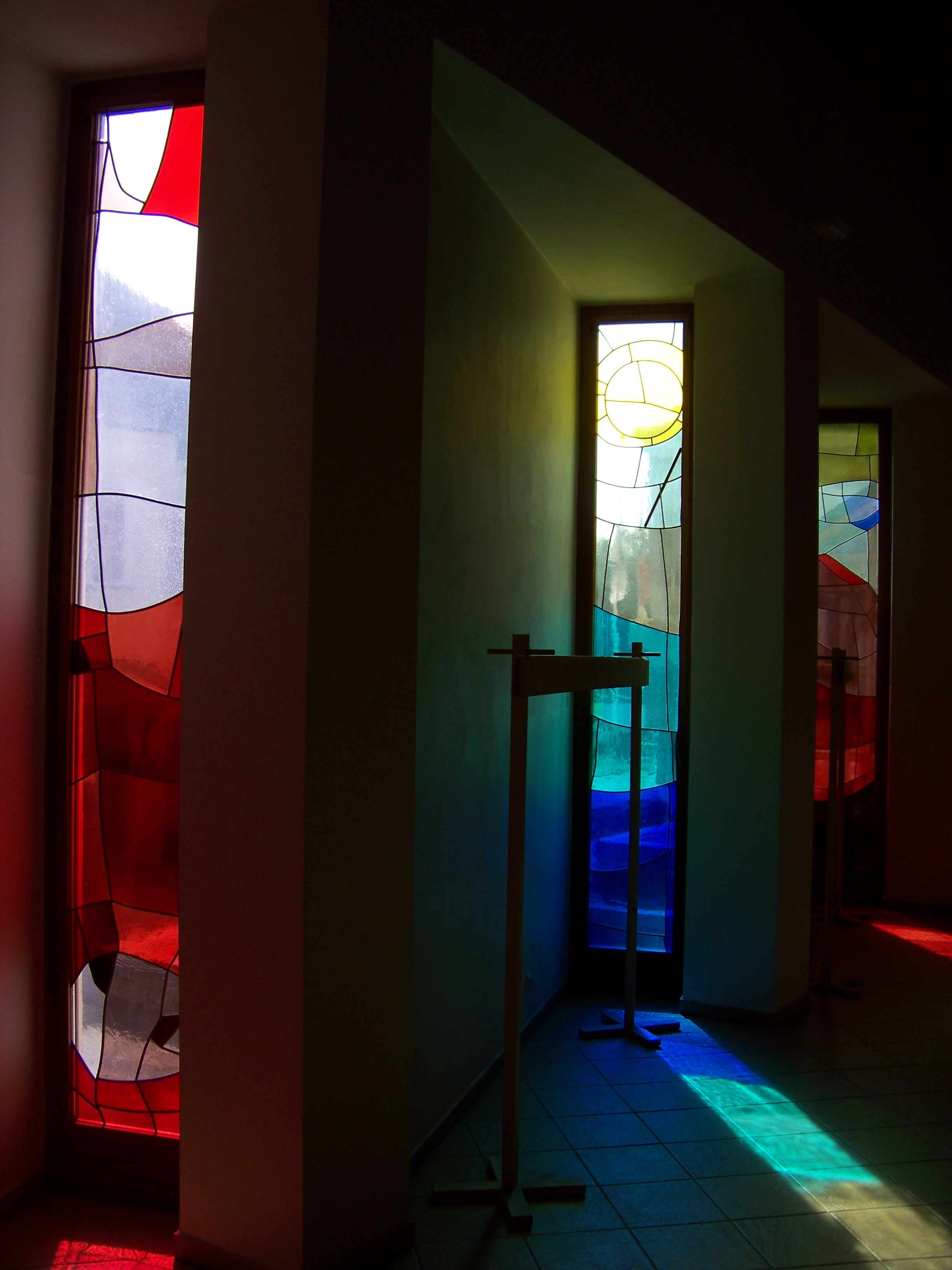 Liberec XXX-Vratislavice nad Nisou, Liberec Region, the Czech Republic. Resurrection Chapel.